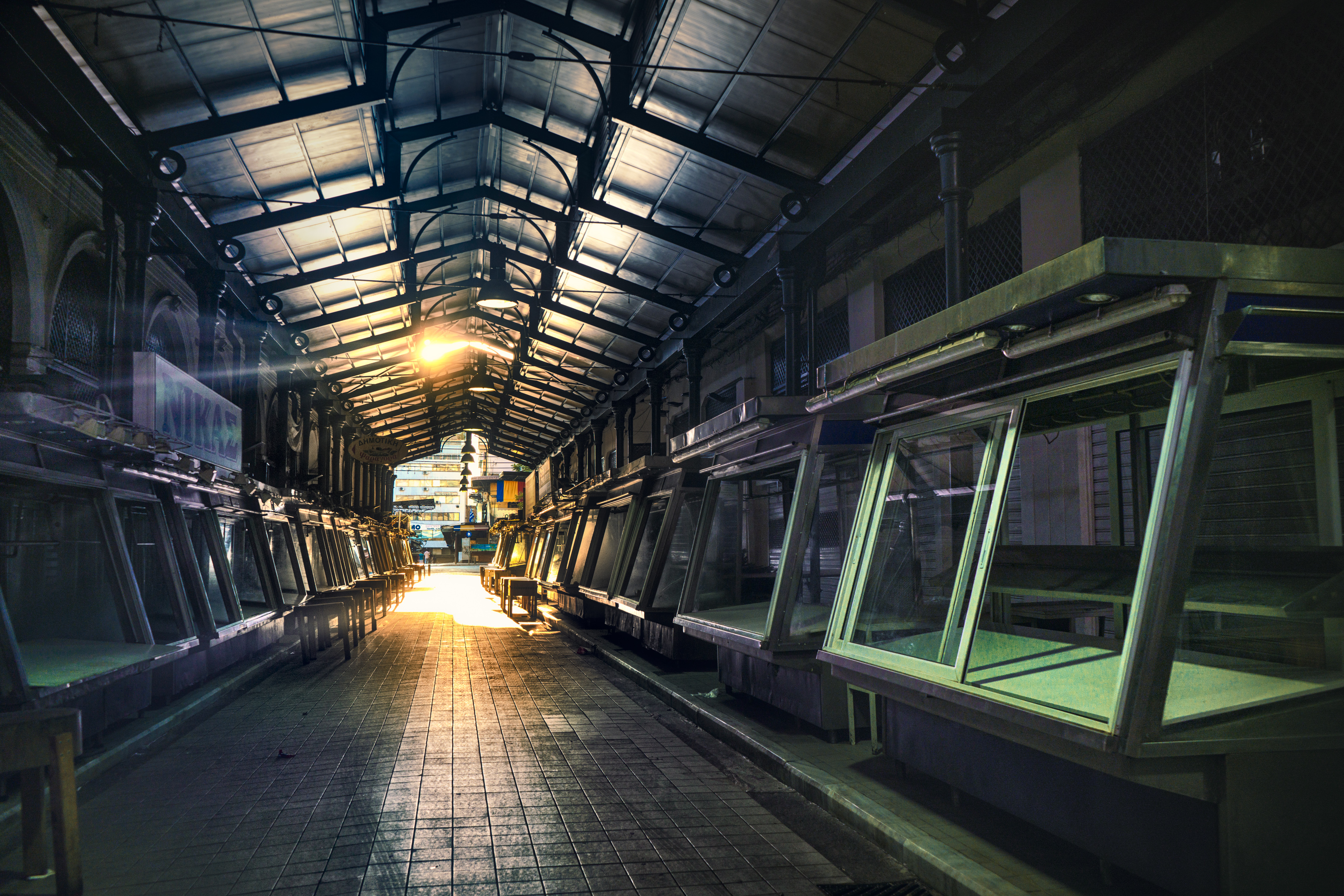 "Varvakis" Central market Athens «Βαρβάκειος Αγορά»